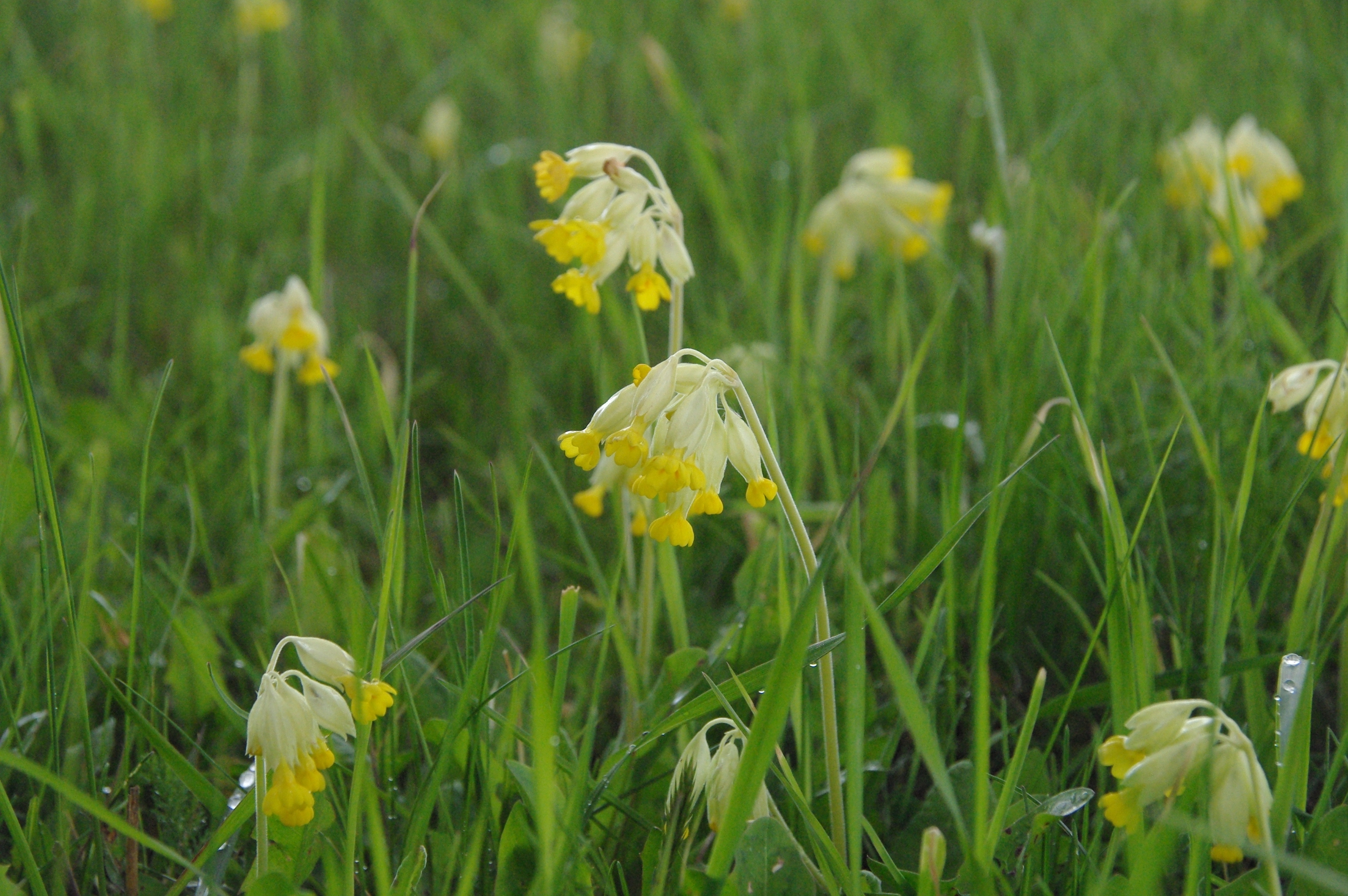 Common cowslip (Primula veris) is frequent plant species in temperate European grasslands.